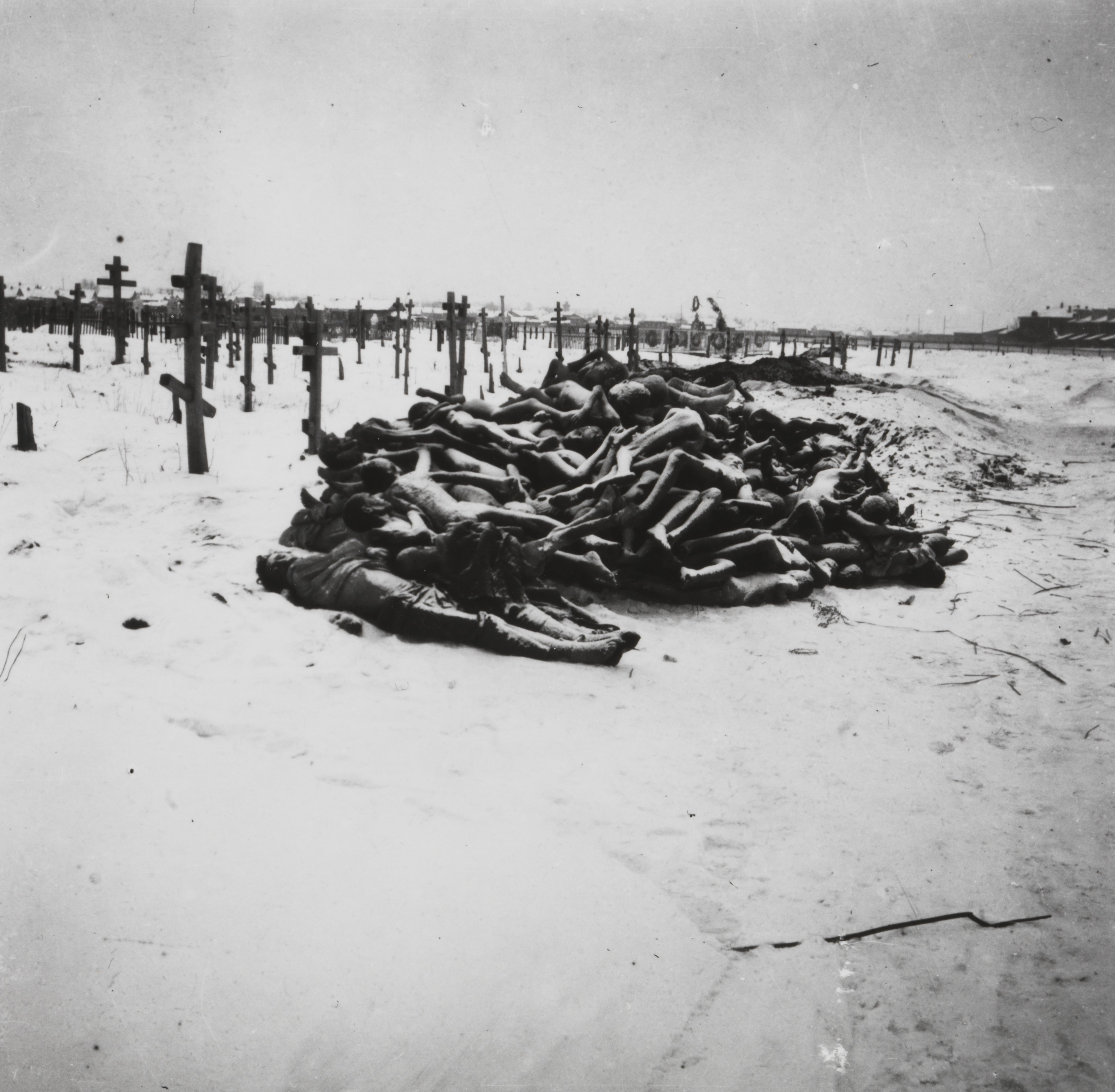 At the cemetery in Buzuluk. Approximately 80 corpses, mostly children, were buried in a common grave after the clothes were stripped off, to be used by the survivors. Fridtjof Nansen wrote in the telegram from Moscow to the Red Cross on Dec. 9, 1921: «(...) In churchyard was pile of about eighty corpses chiefly children all stripped as clothes required for survivors stop That was two days harvest of deathcarts (...)» One of the pictures from Russia in November and December 1921. On assignment from the International Red Cross, Fridtjof Nansen visited the regions that were the hardest hit by famine.